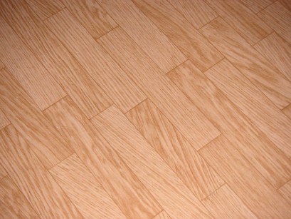 Linoleum floor.